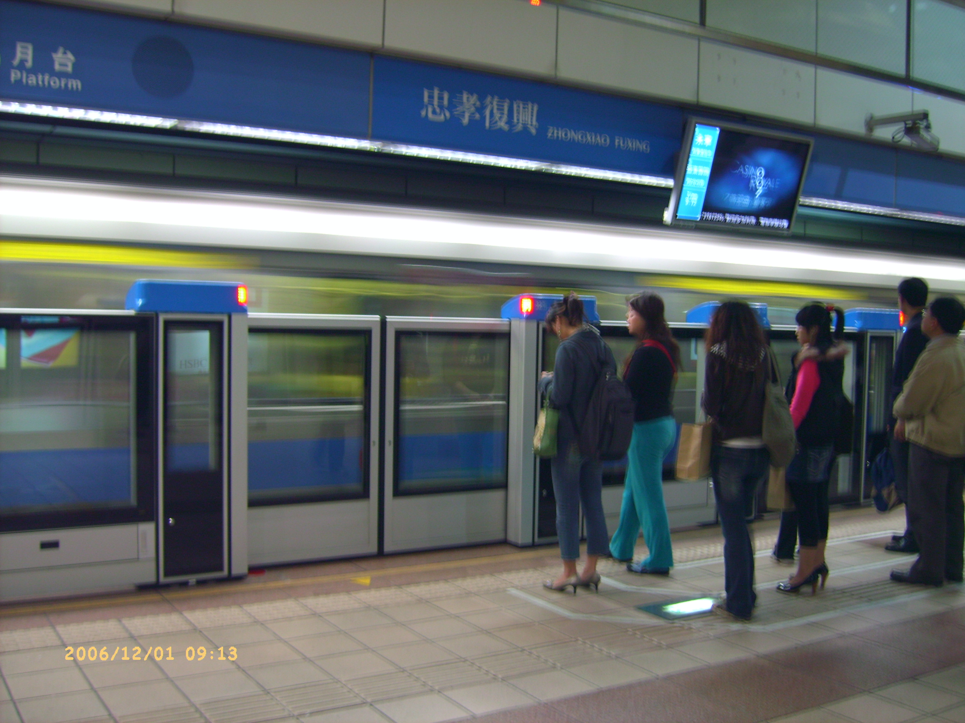 Gate Door Signal lightened when train is arriving at the Taipei MRT Zhongxiao Fuxing Station.